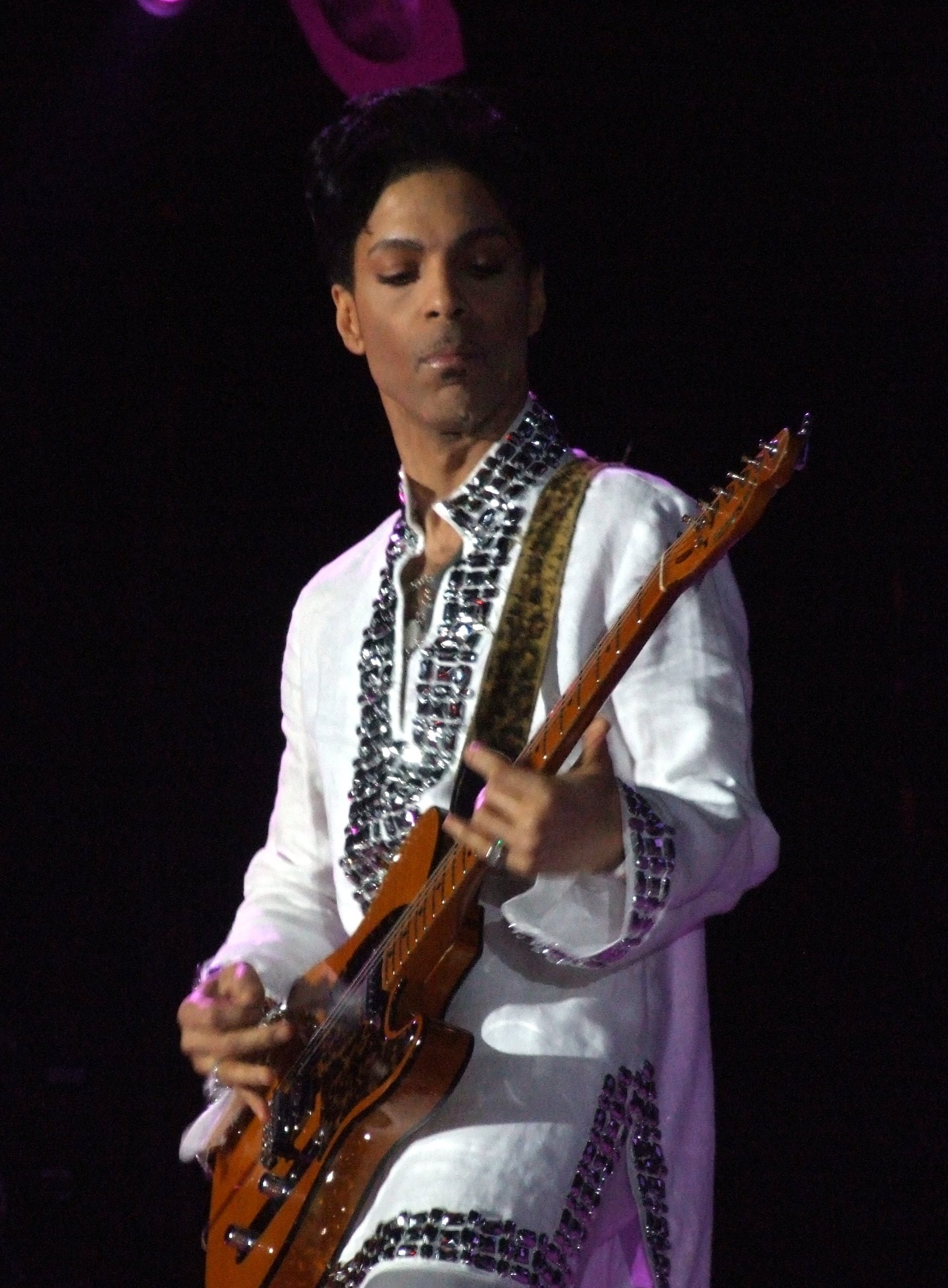 Prince playing at Coachella 2008.